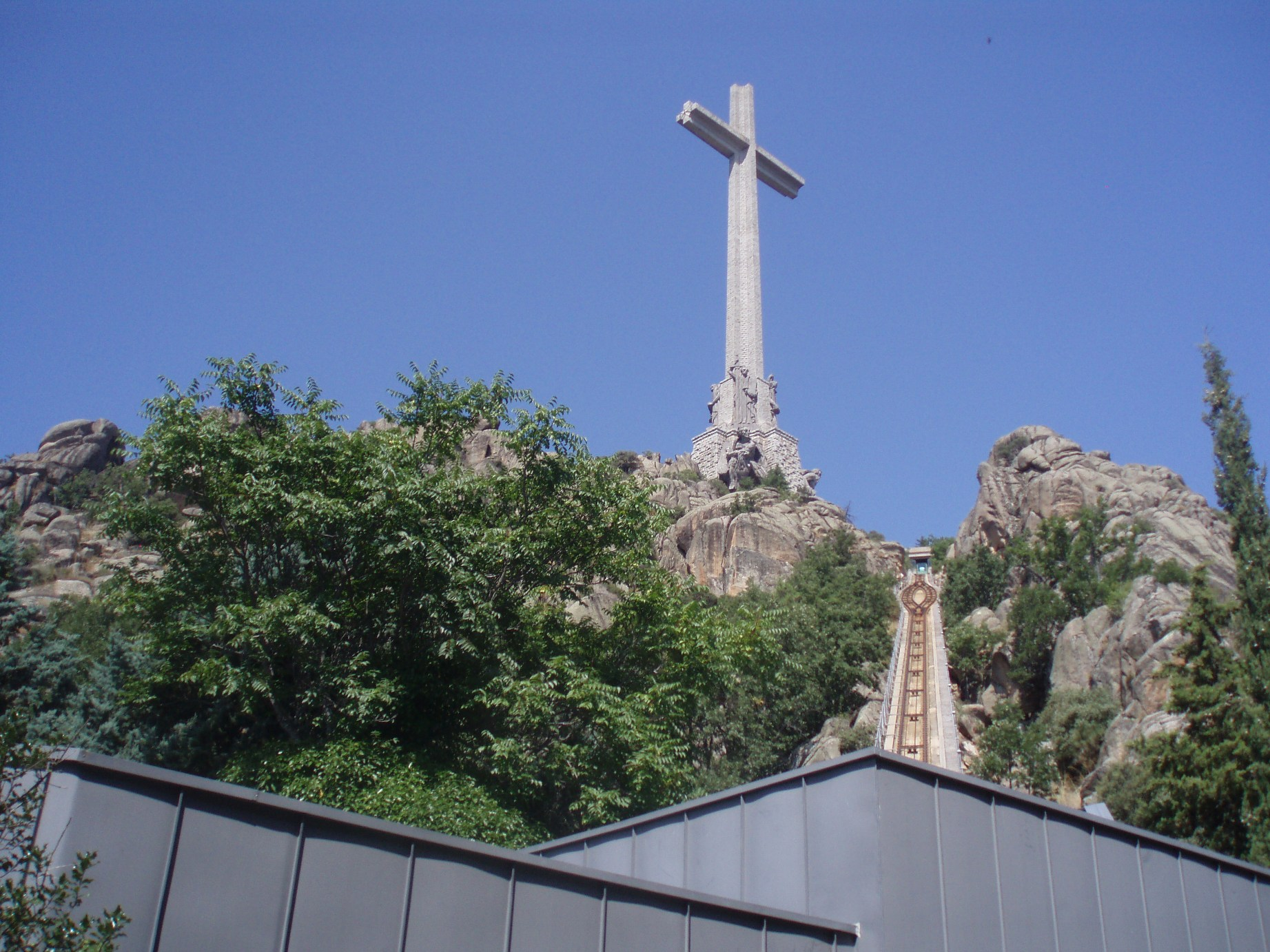 Cross and funicular of the Valle de los Caídos (Community of Madrid, Spain).